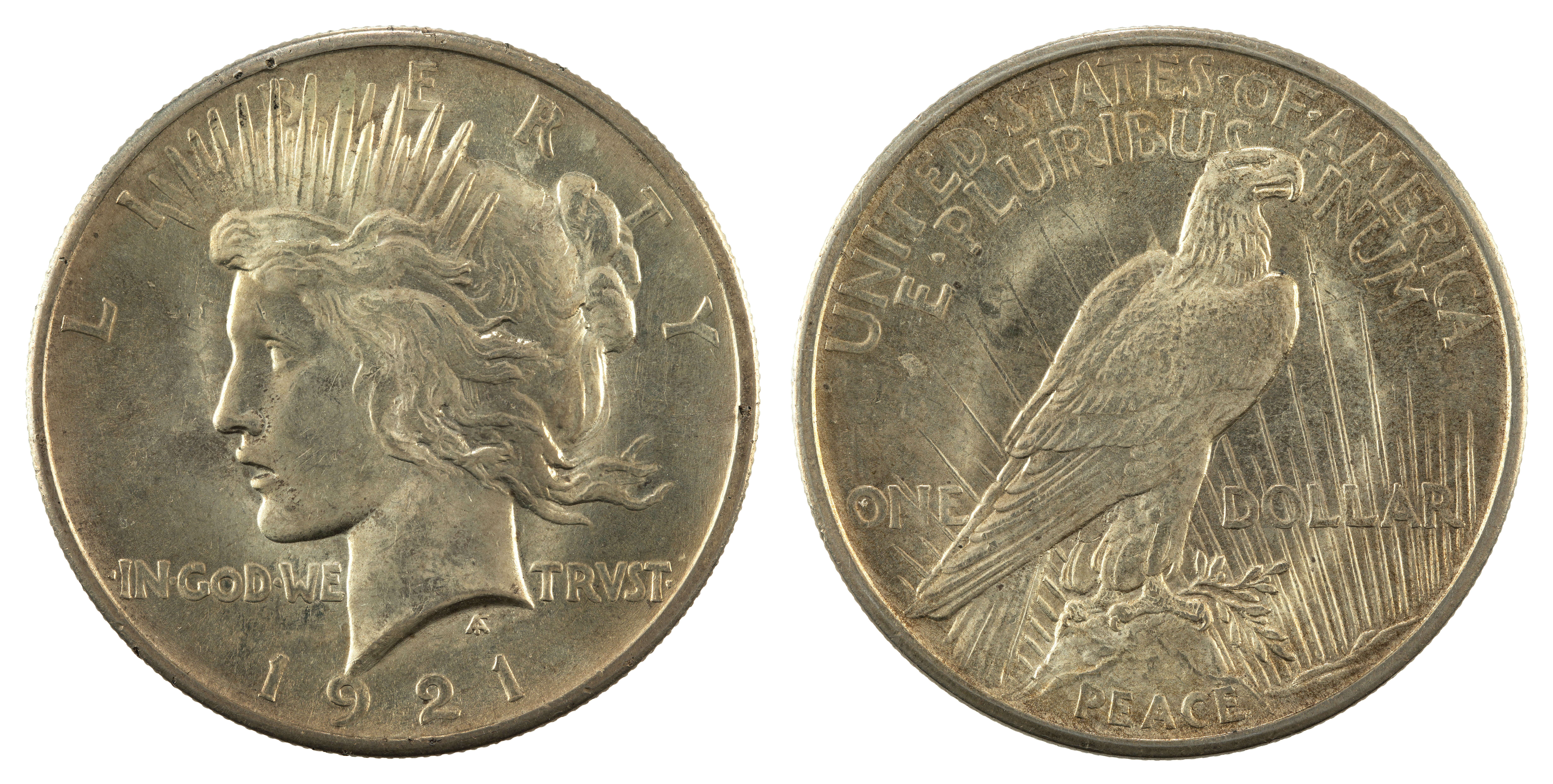 JN2015-6706-07